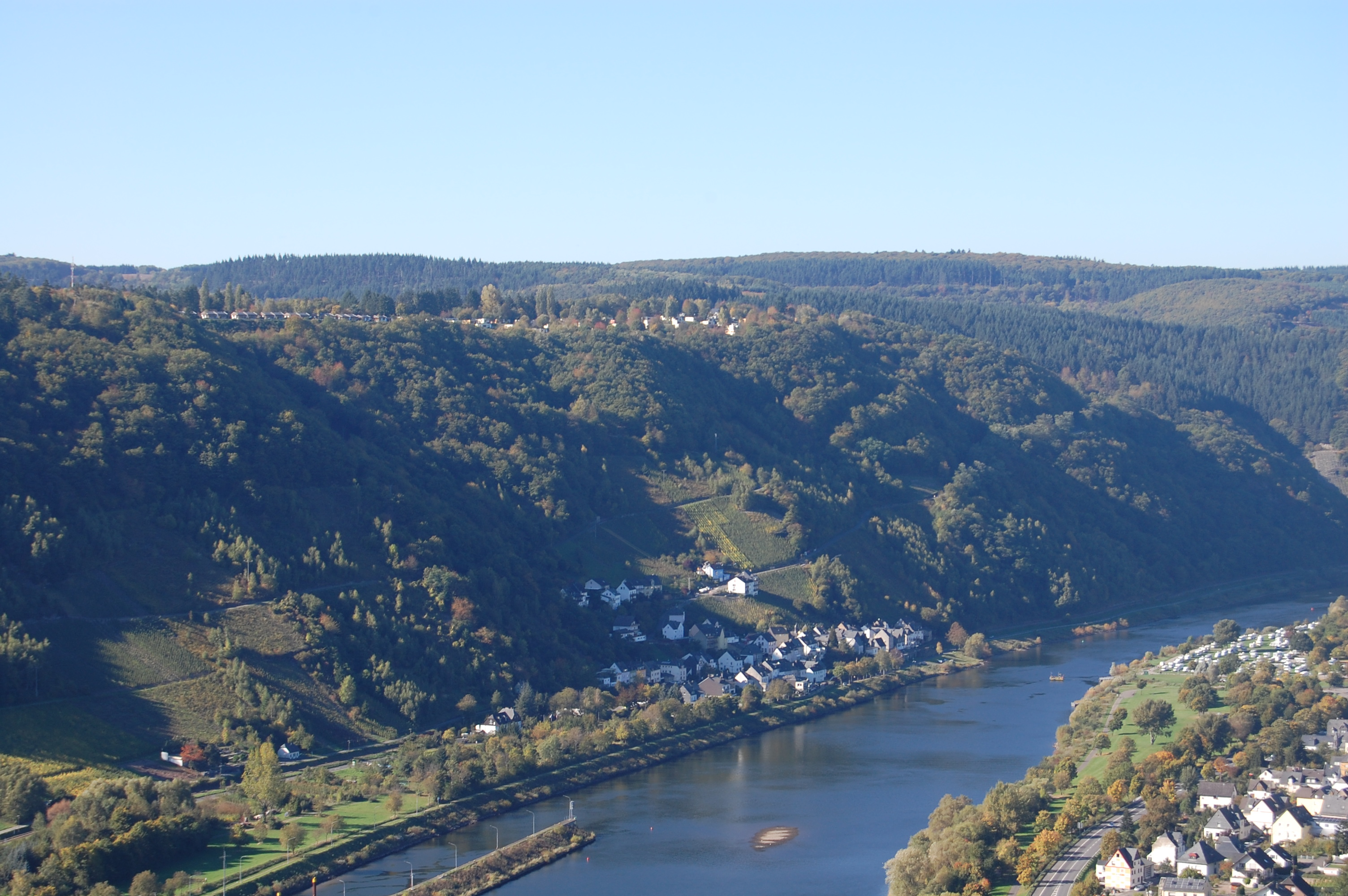 Village Kövenig in the Mosel river valley, Germany